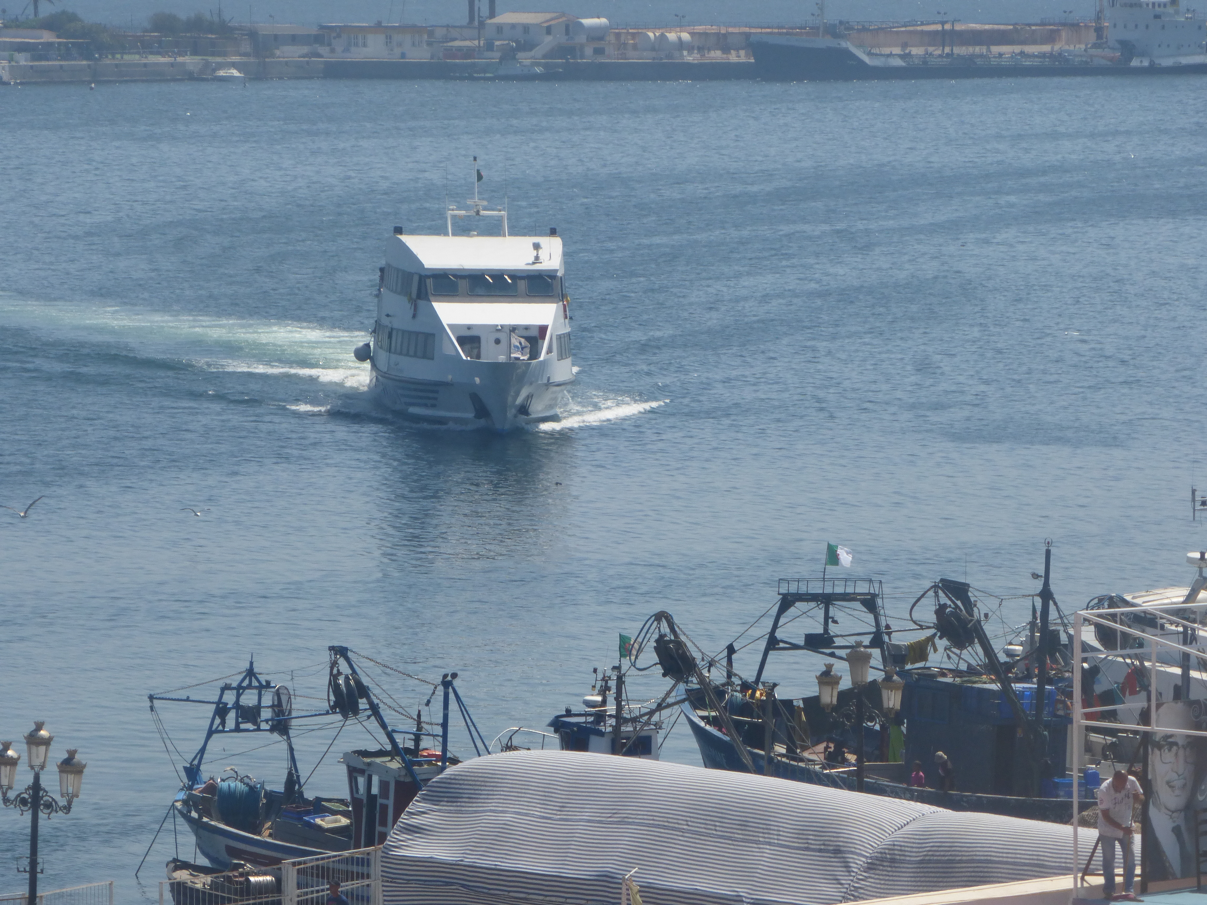 Ischiamar III, italian boat of Capitan Morgan, Algiers La Pêcherie, 5/09/2014